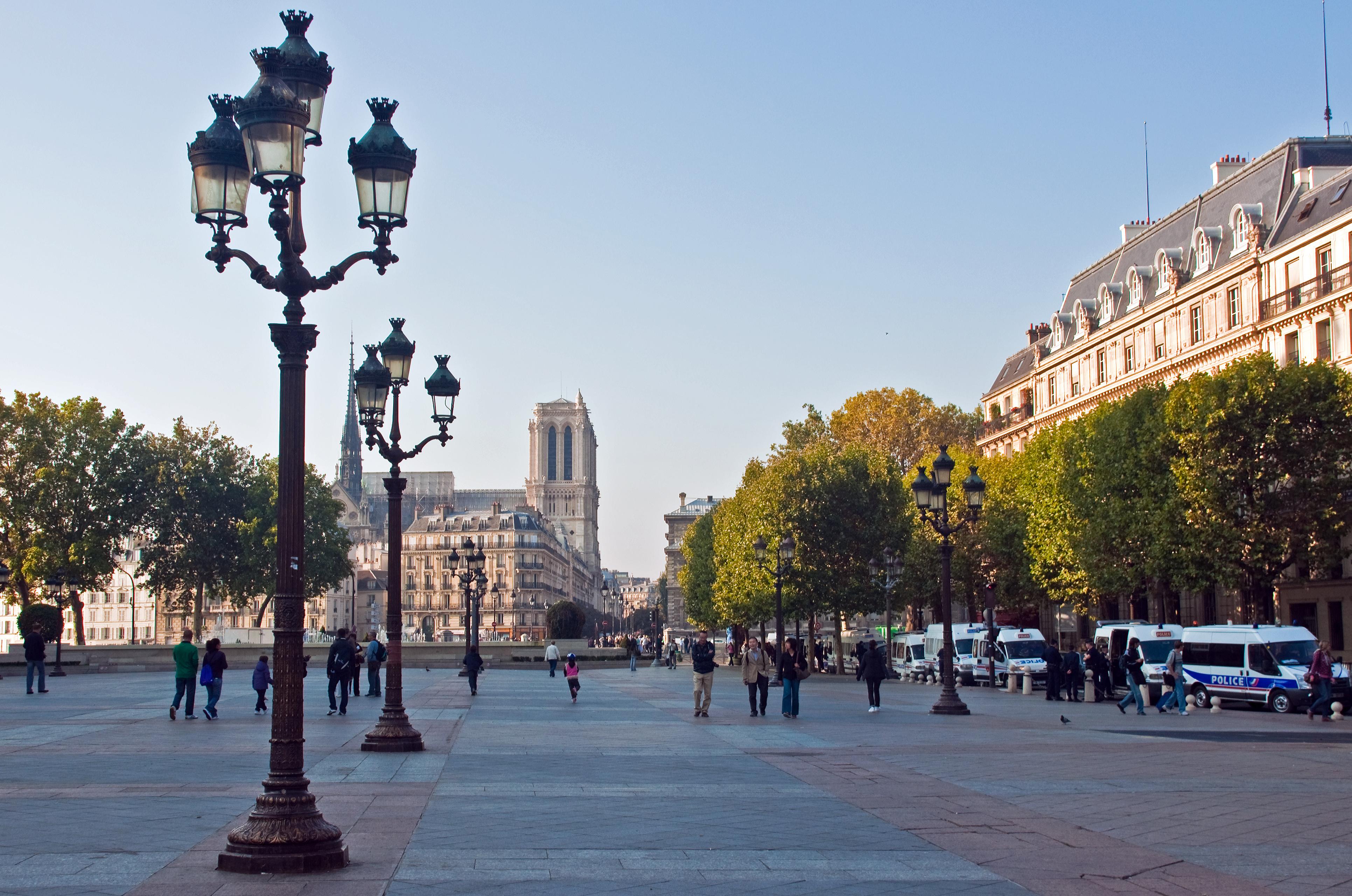 Notre Dame from the Hotel de Ville, Paris, 26 Sept. 2009